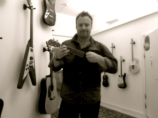 Jeppe Riddervold, CEO of JAM Music Company